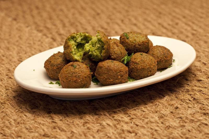 Golden Falafel balls on plate.